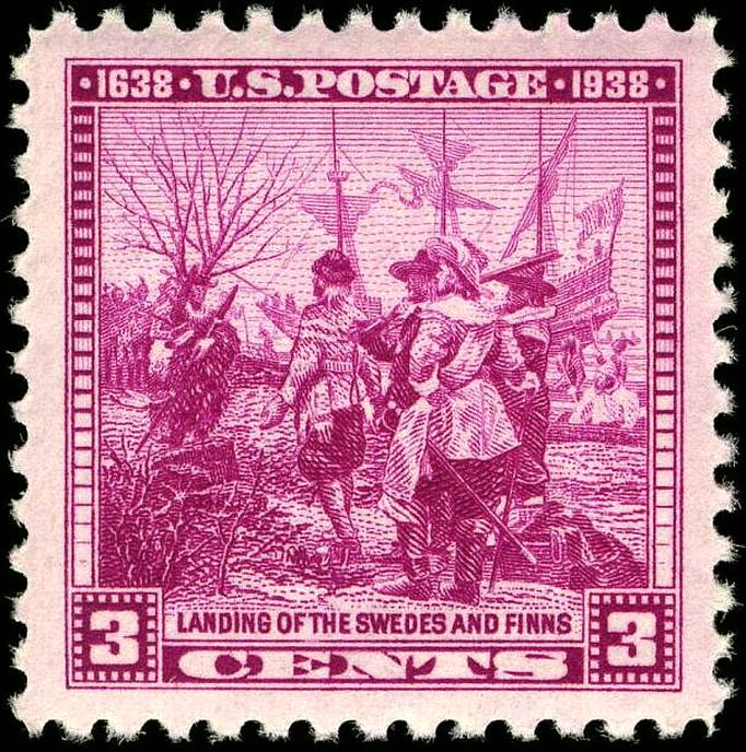 founding of wilmington, delaware, 1638 Category:United States history images